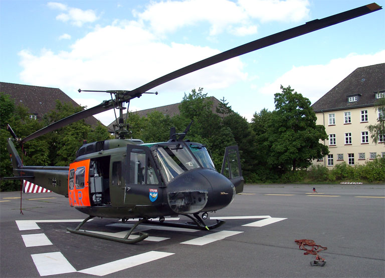 Search-and-rescue (SAR) helicopter of the German Air Force. Dornier-built Bell UH-1D Huey helicopter.